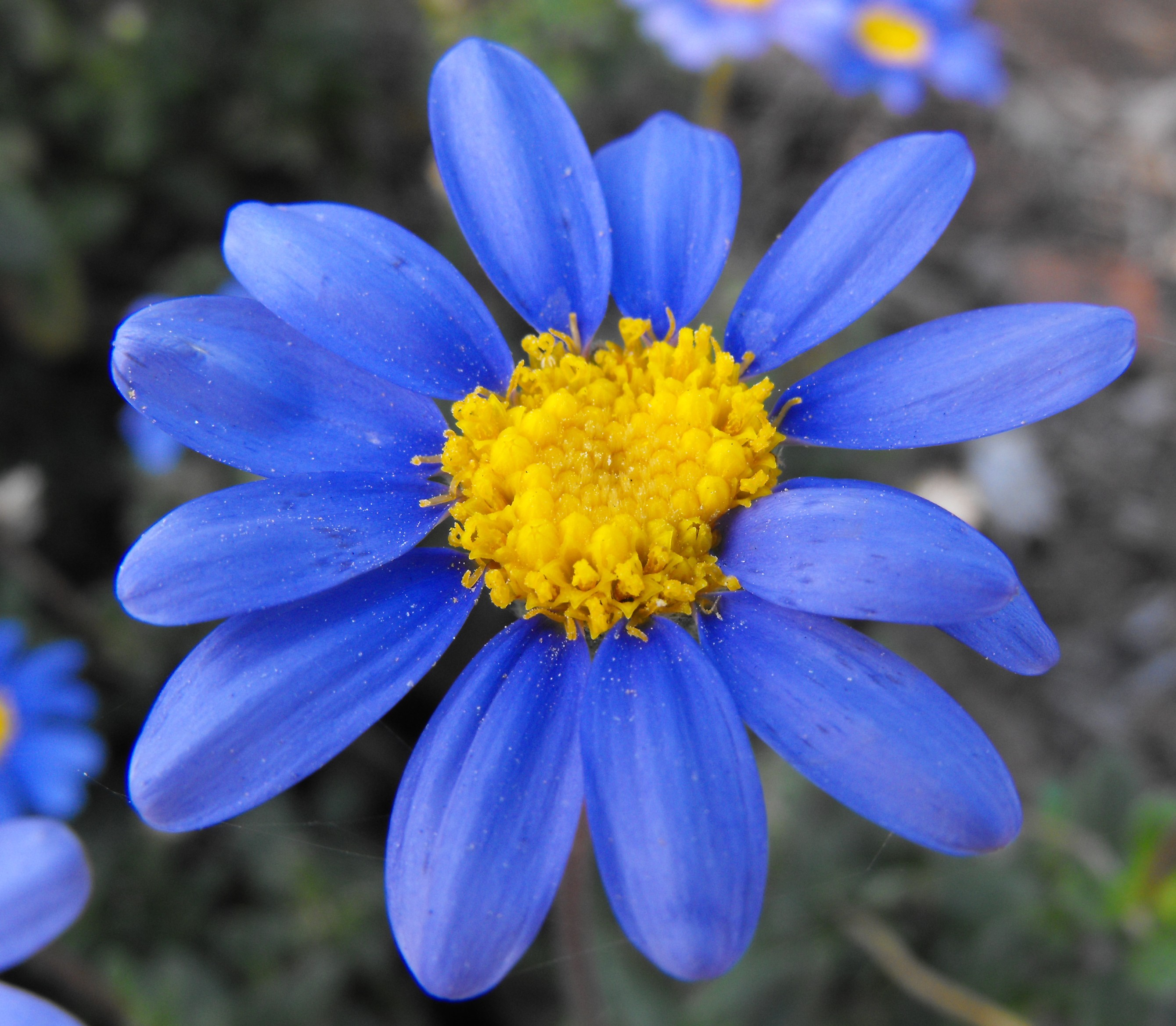 Felicia amelloides at the Water Conservation Garden at Cuyamaca College, El Cajon, California, USA. Identified by sign.